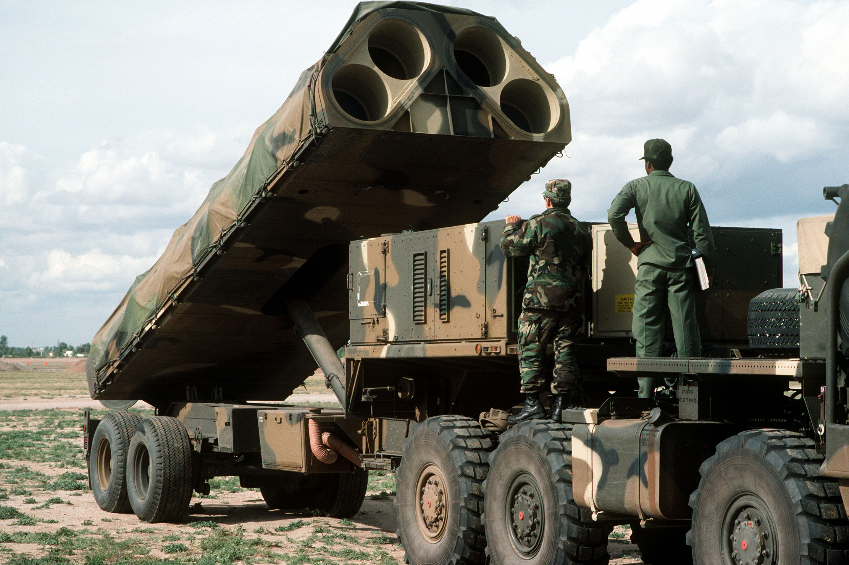 A launching unit for BGM-109G Gryphon missiles